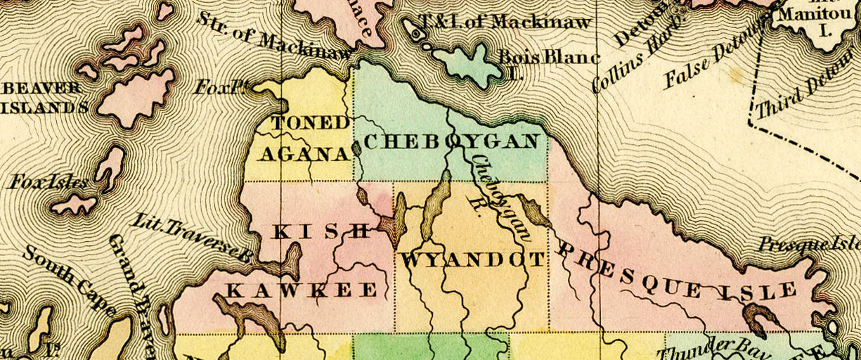 Detail of A New Map of Michigan With Its Canals, Roads & Distances by H.S. Tanner, 1842, showing: Tonedagana County (later renamed Emmet County) Cheboygan County Keskkauko County (misspelled "Kishkawkee") (later renamed Charlevoix County) Wyandot County (later eliminated and annexed to Cheboygan County) Presque Isle County